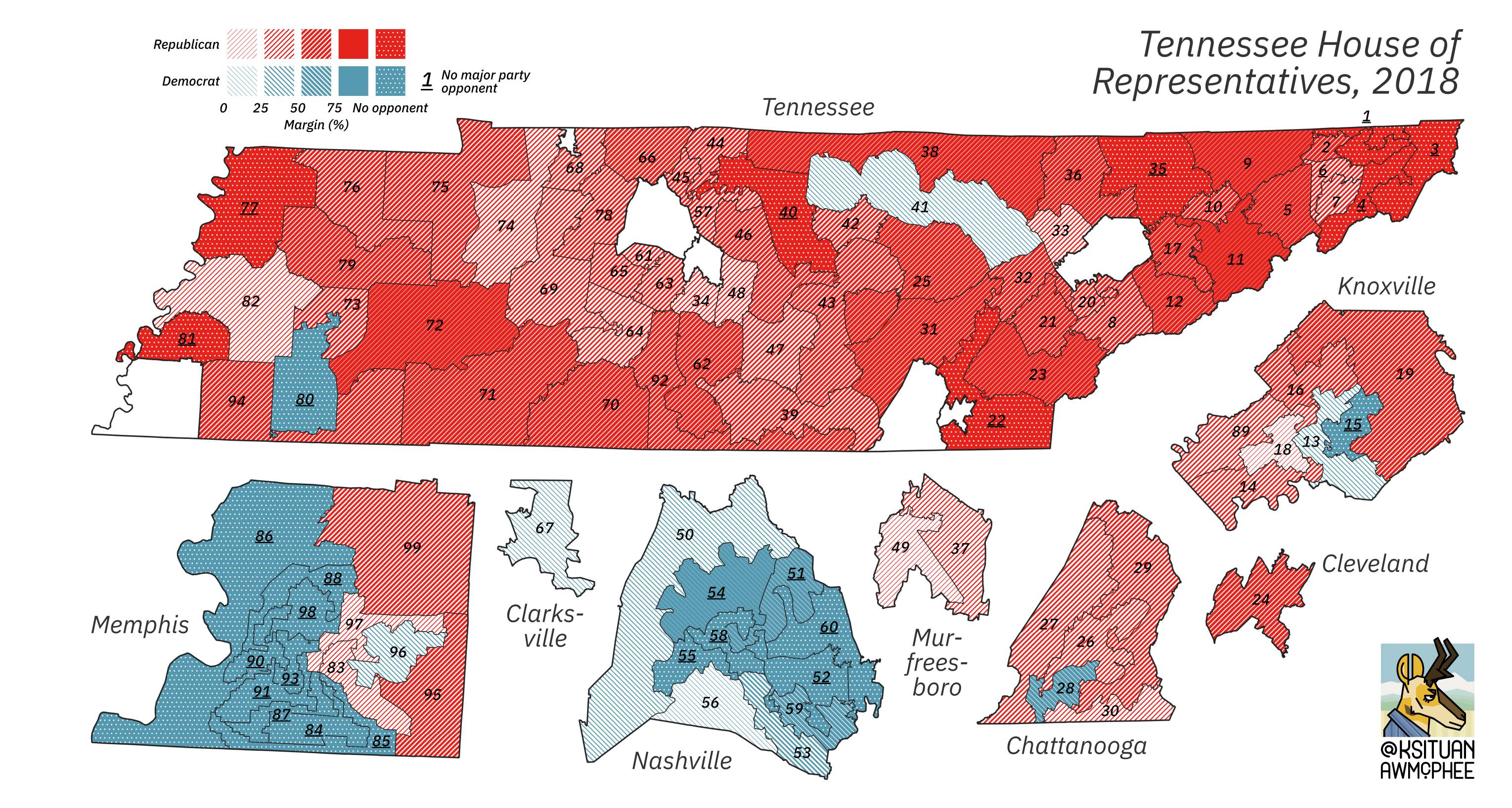 A series of state legislative election maps, created from open data during the summer of 2020. Their common visual style is designed to accomodate all of the unique features of American democracy. They were created using QGIS and Inkscape, two free programs. Please use freely and contact the author with any inquiries about visualizing election data with open-source tools.